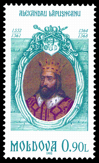 Alexandru Lăpuşneanu (1552-1561, 1564-1568). Moved Moldova´s Capital from Suceava to Jassy. Treated the boyars cruelly, that fact cost him his life.